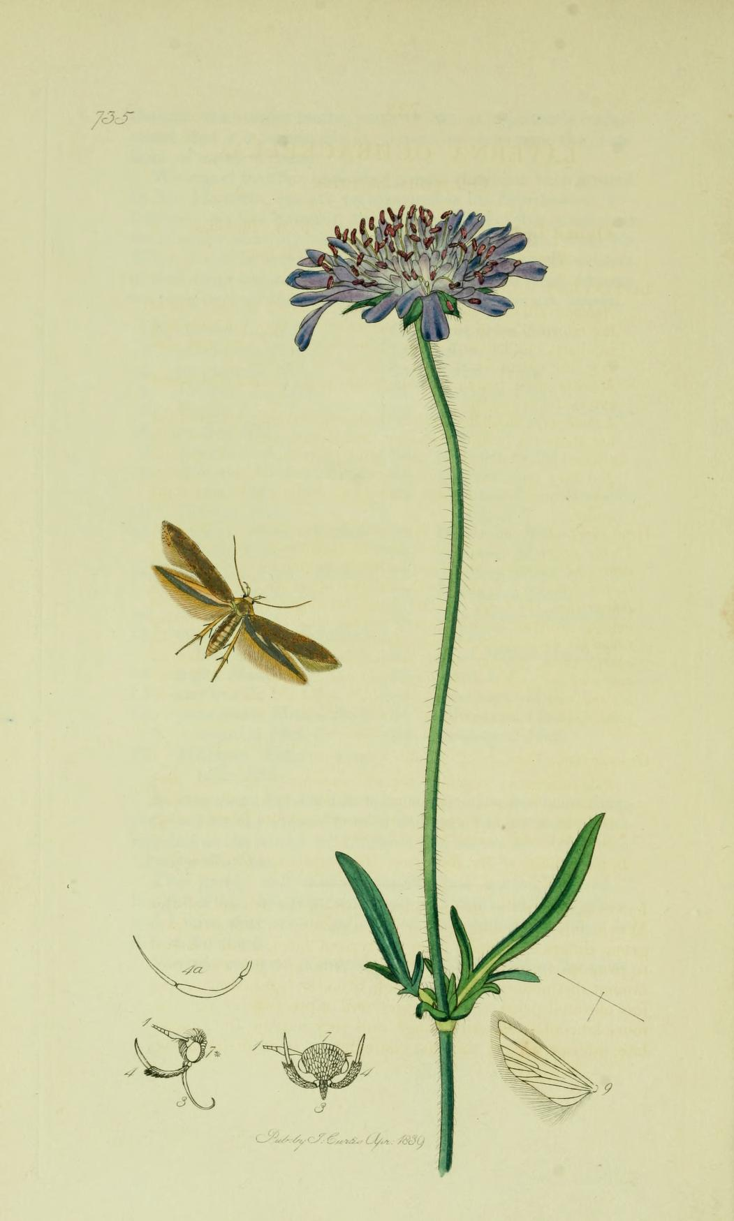 An illustration from British Entomology by John Curtis. Lepidoptera: Laverna ochraceella Curtis or Mompha ochraceella (Curtis).